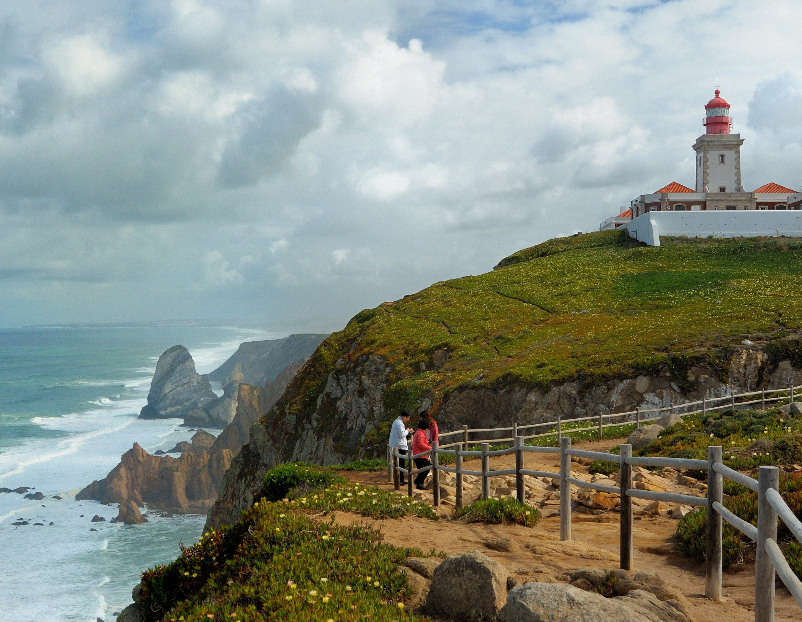 Cabo da Roca (Cape Roca)